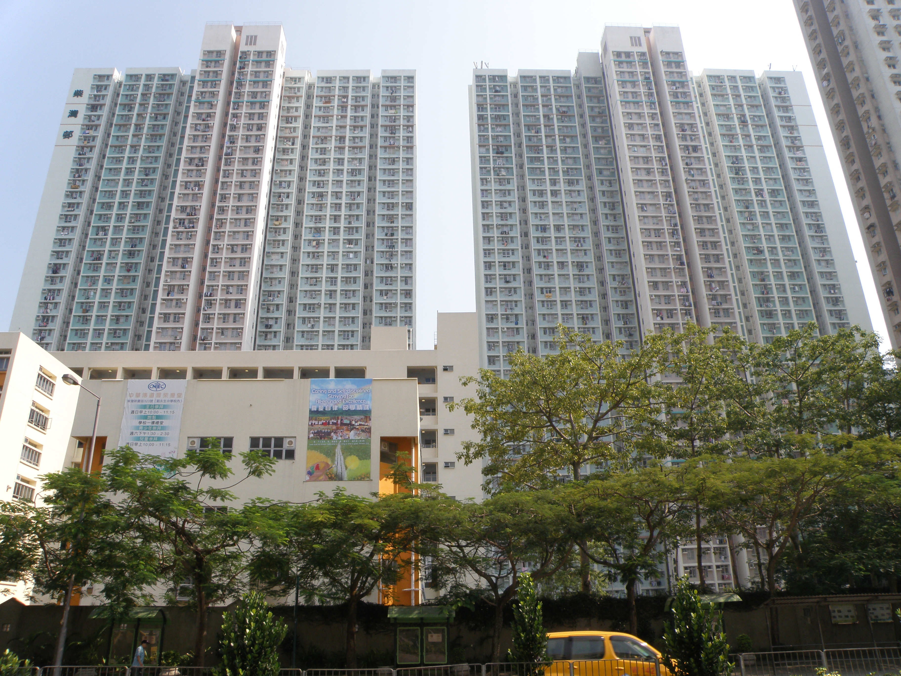 Chai Wan Estate in Chai Wan, Hong Kong.